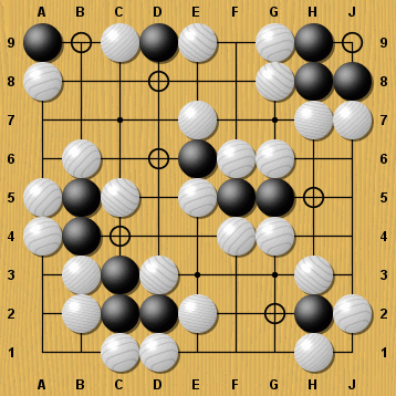 stones in atari